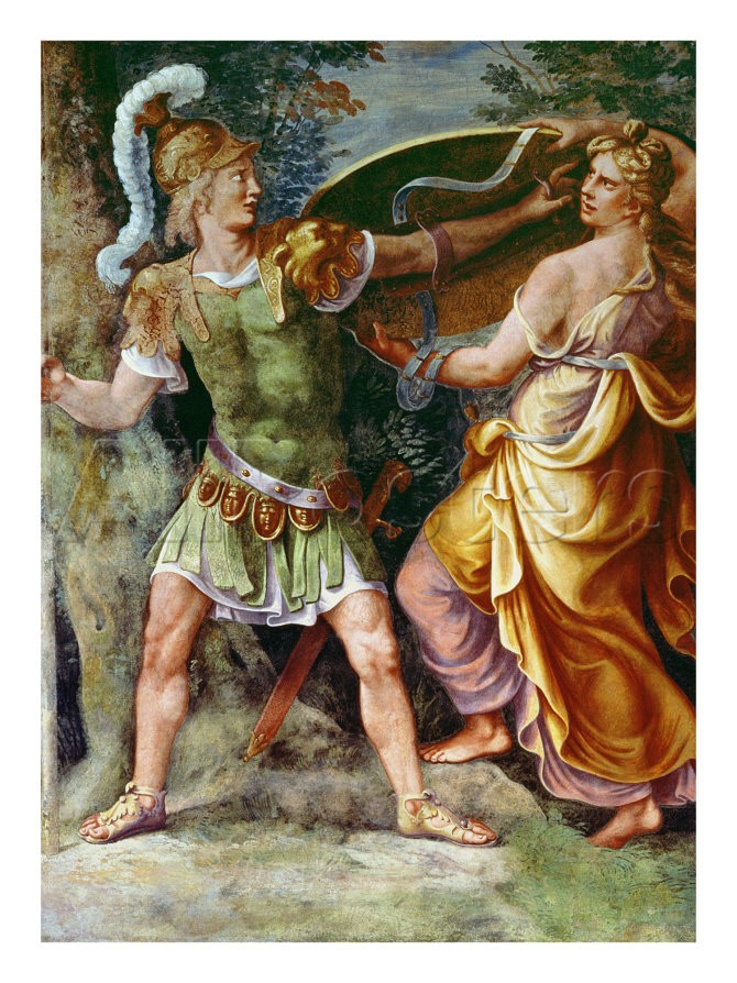 Thetis Giving Achilles His Arms